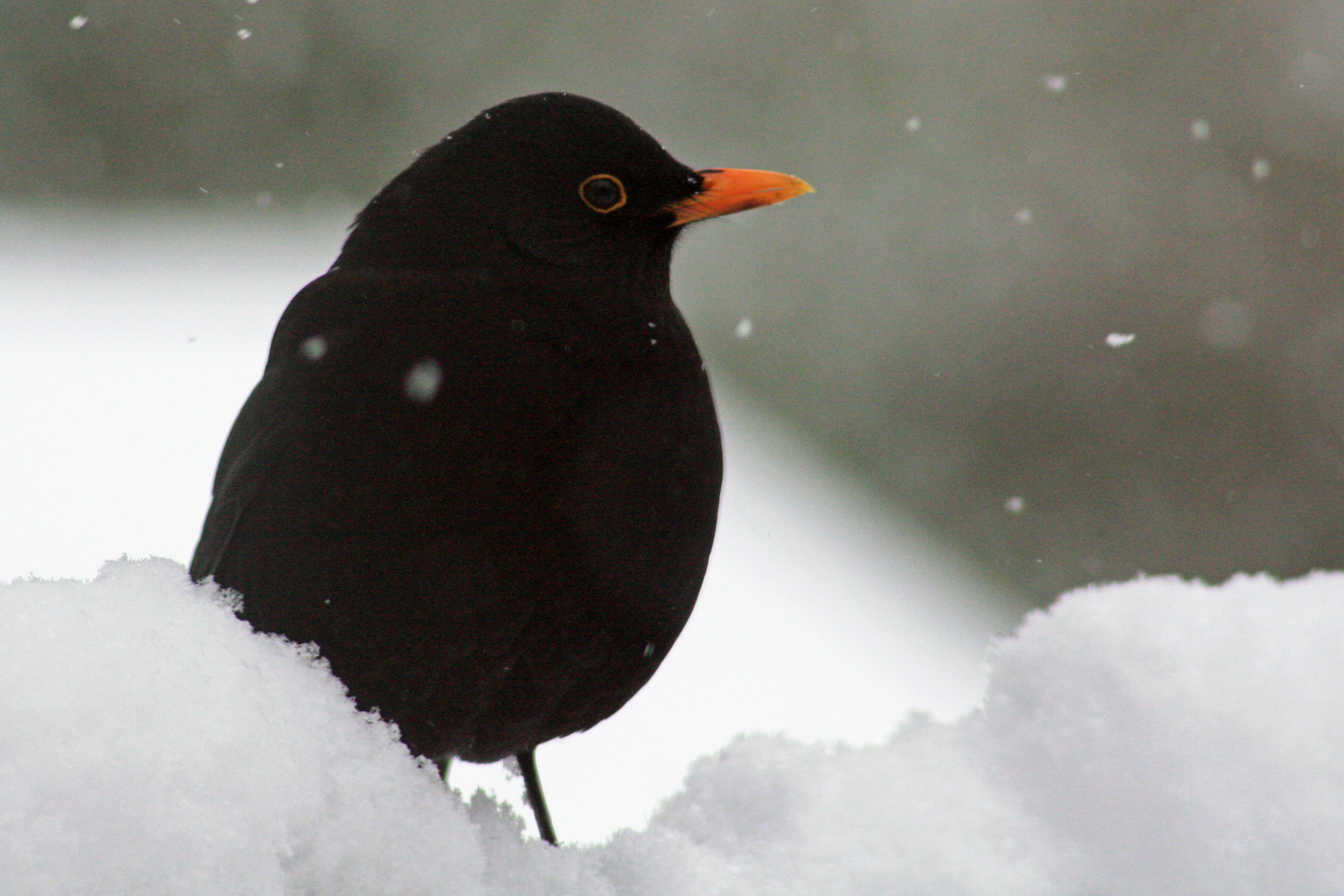 The Common Blackbird (Turdus merula) is a species of true thrush. It is also called Eurasian Blackbird (especially in North America, to distinguish it from the unrelated New World blackbirds), or simply Blackbird